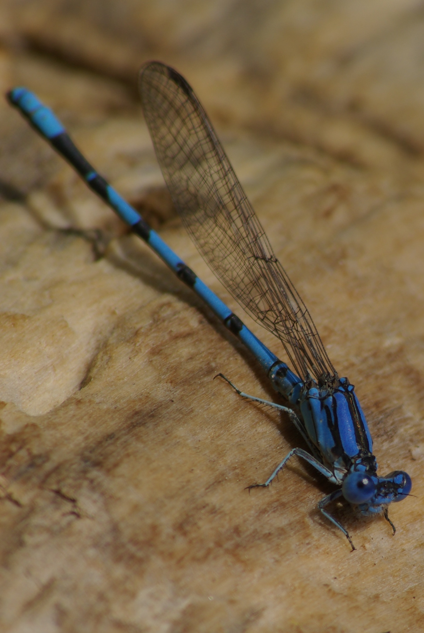 Aztec Dancer (Argia moesta)damselfly in Crowley Park, Richardson, Texas.